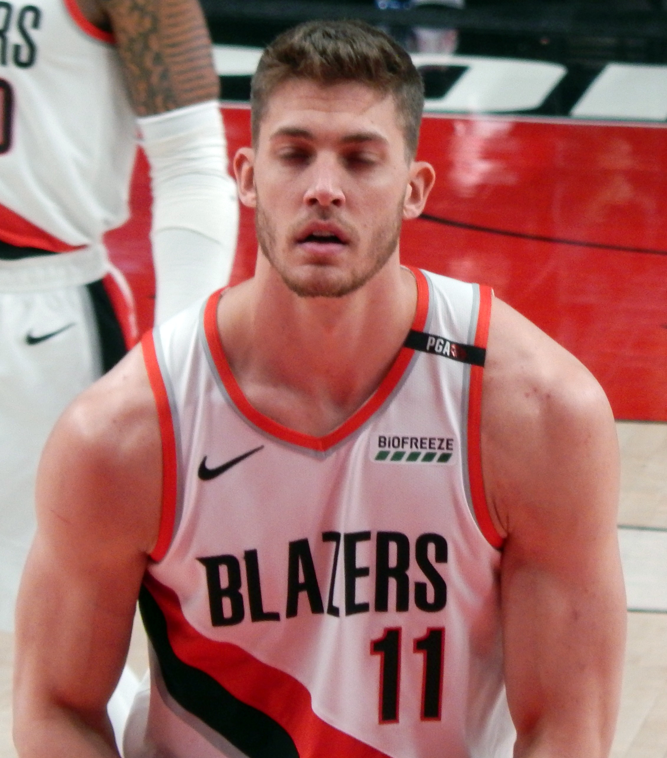 Meyers Leonard #11 of the Portland Trail Blazers shoots a free throw against the Cleveland Cavaliers on January 16, 2019 at Moda Center in Portland, Oregon.